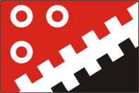 Lehtse valla lipp (1995–2005)